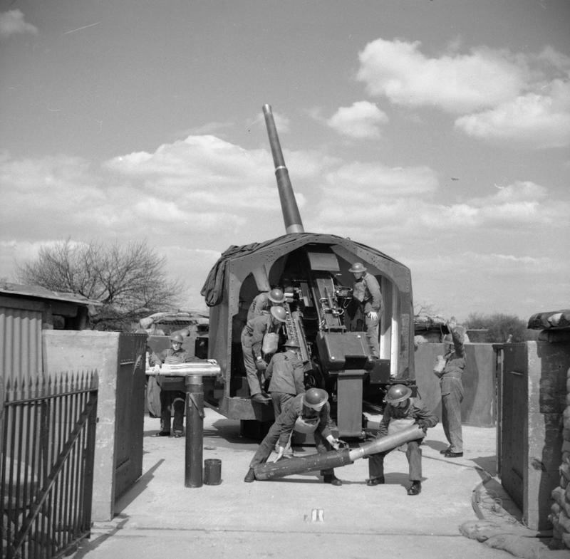 The British Army in the United Kingdom 1939-45 A 4.5-inch anti-aircraft gun and crew, 52nd Heavy Regiment, Royal Artillery, 16 April 1941.